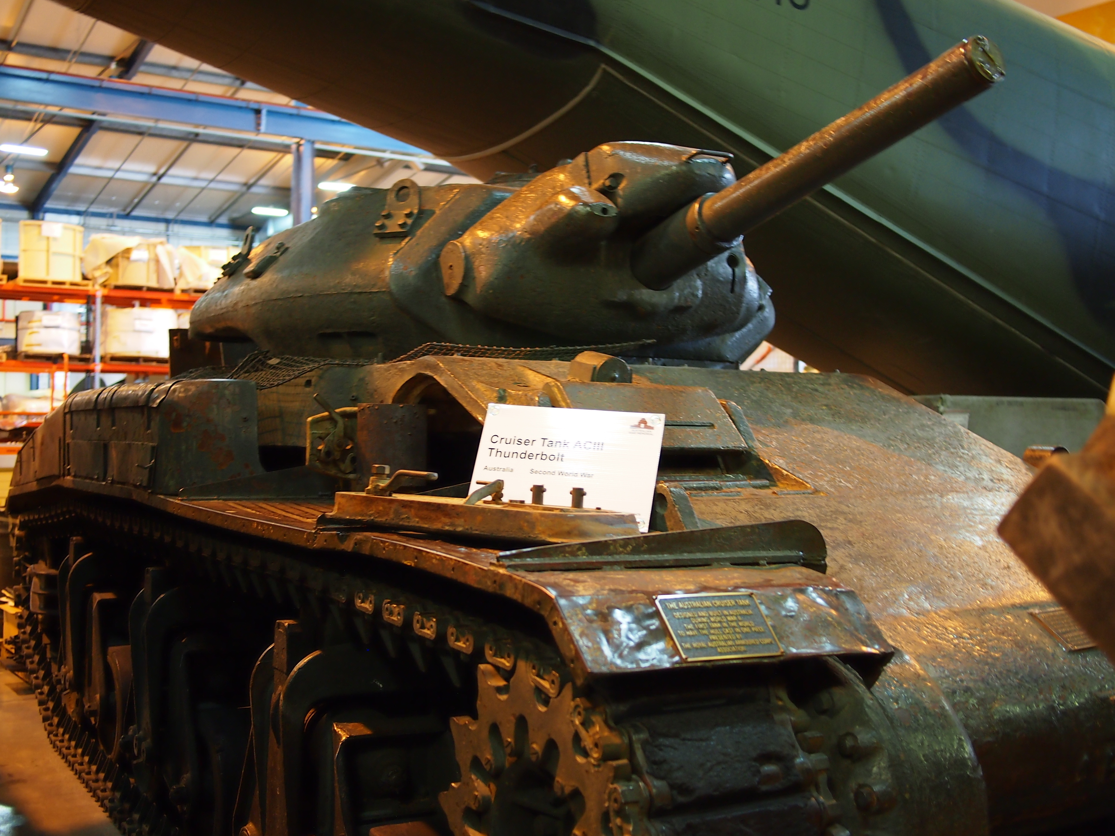 The Cruiser Tank ACIII Thunderbolt at the Treloar Technology Centre